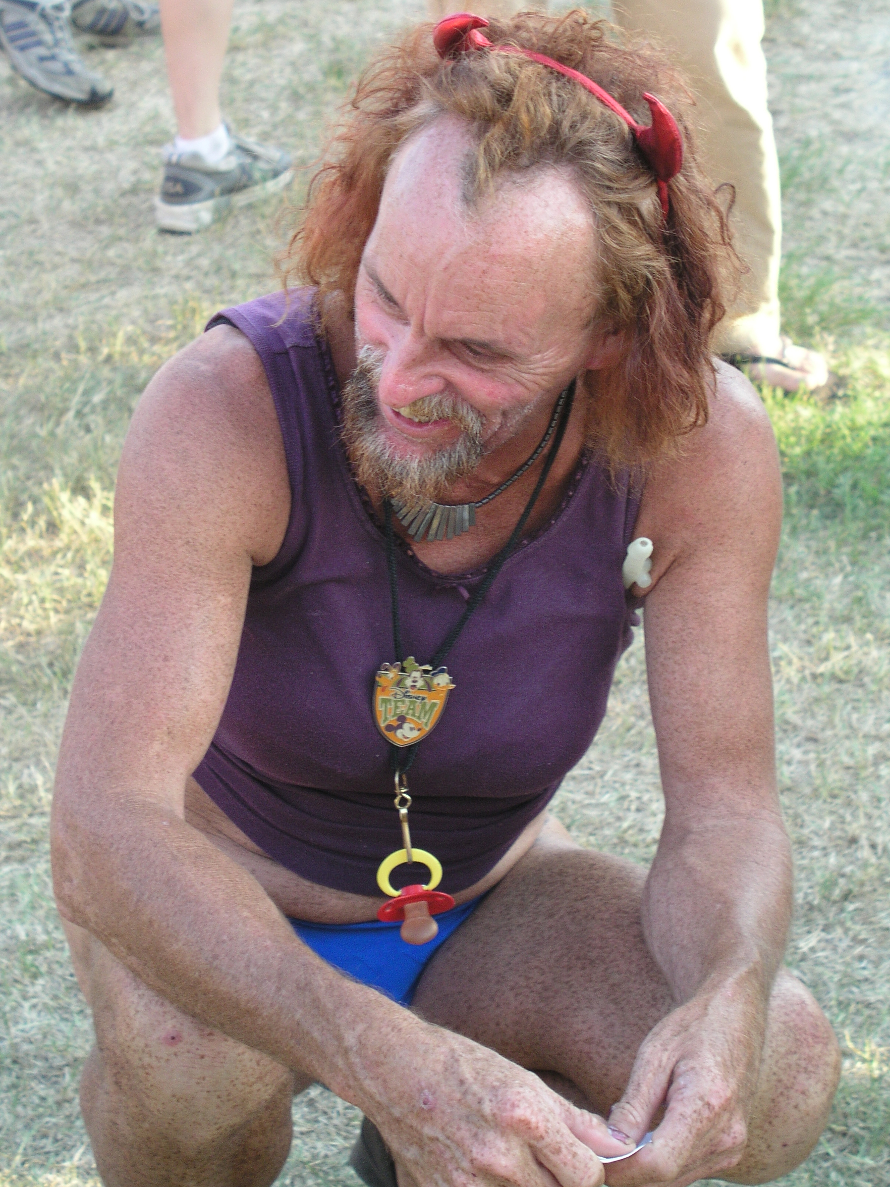 Leslie Cochran at the 1st Annual Keep Austin Weird 5K walk/run